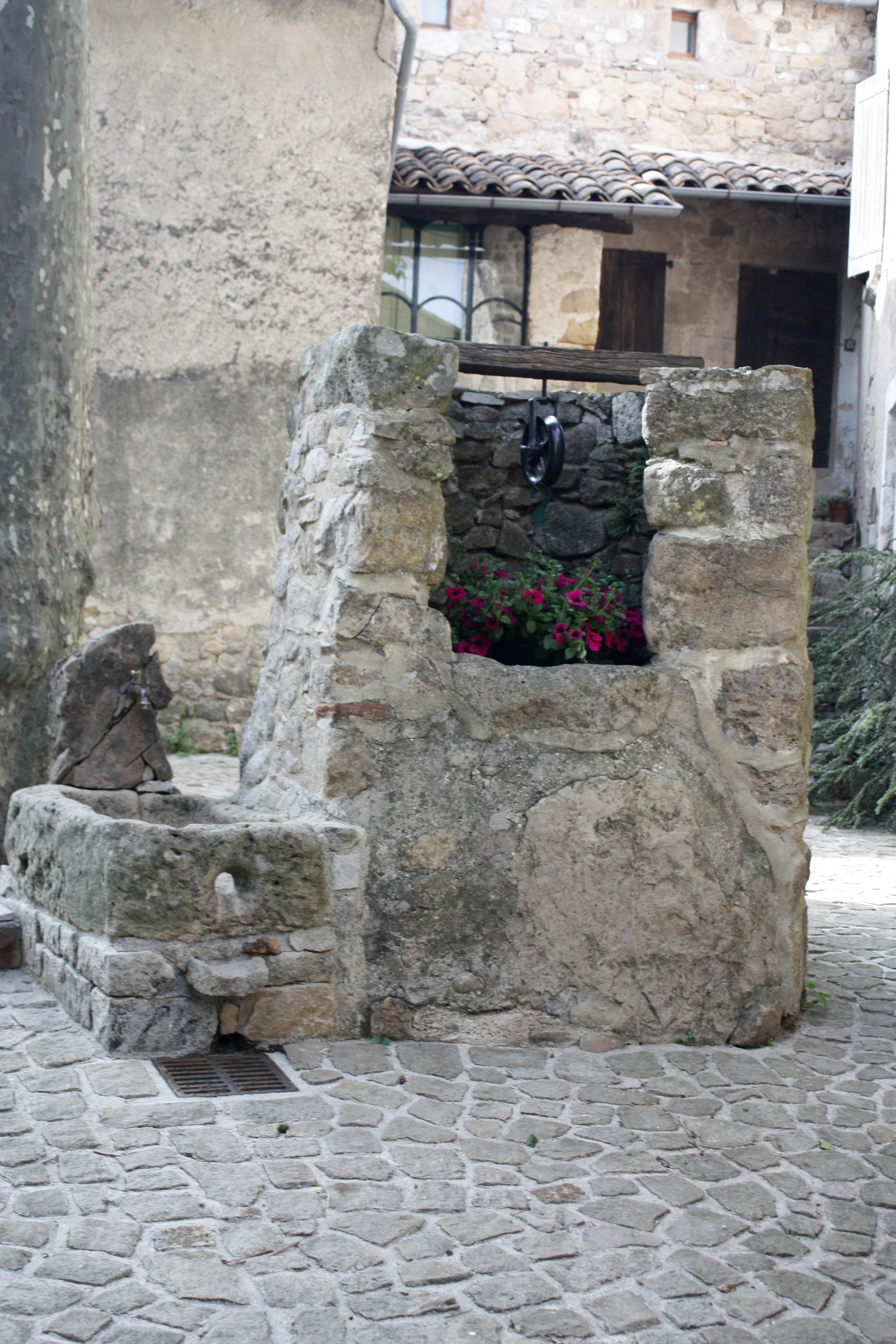 The municipal well and the through.